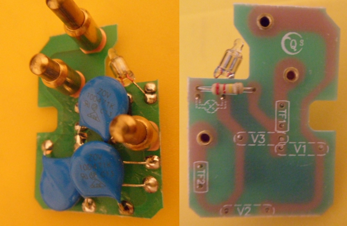 The back & front of the circuitry that's found in a special plug with built-in surge protection.